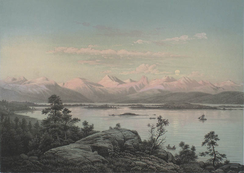 Picture from the work "Norge fremstillet i Tegninger" from 1848 by Christian Tønsberg. The picture depicts Moldefjorden, Norway.